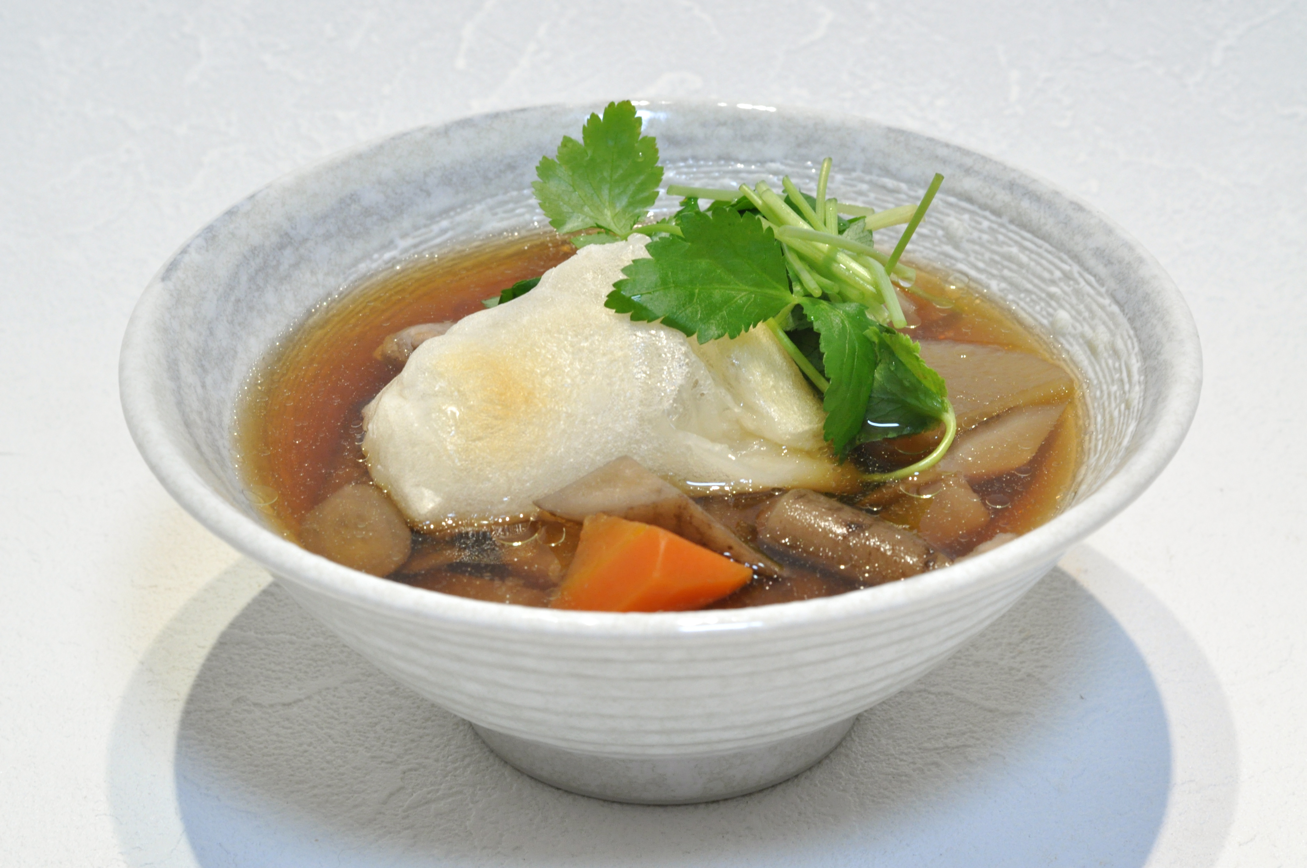 Zōni from Kanto region